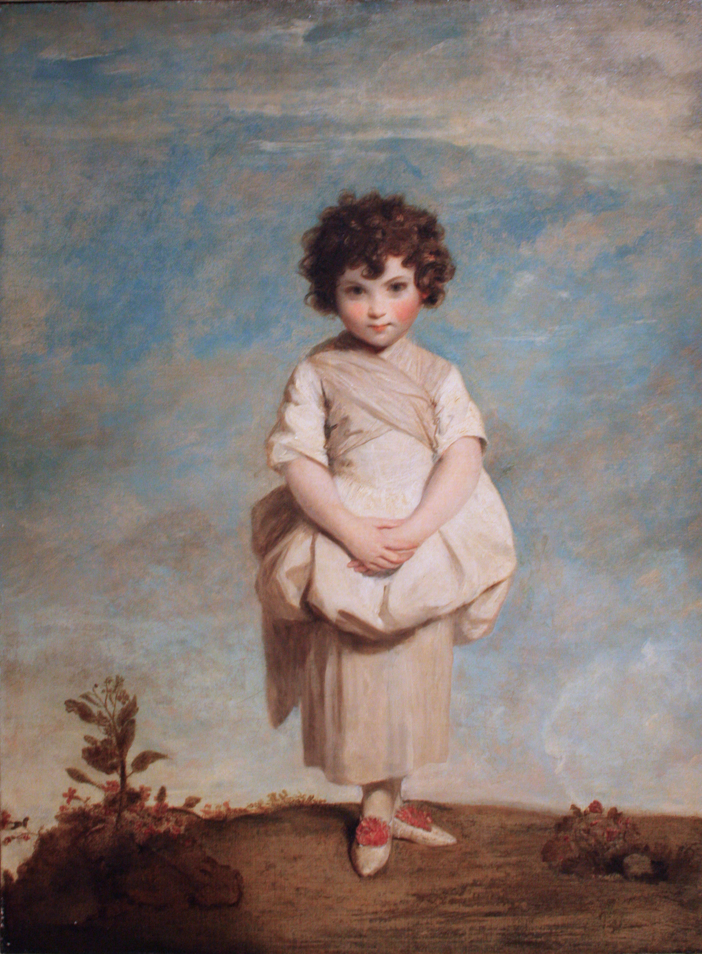 Subject is daughter of John FitzPatrick, 2nd Earl of Upper Ossory. The title, "Collina", is Italian for hill.